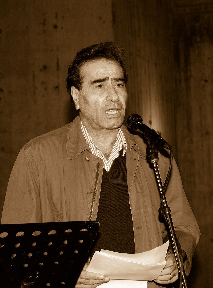 عصام العبدالله يلقي من أشعاره